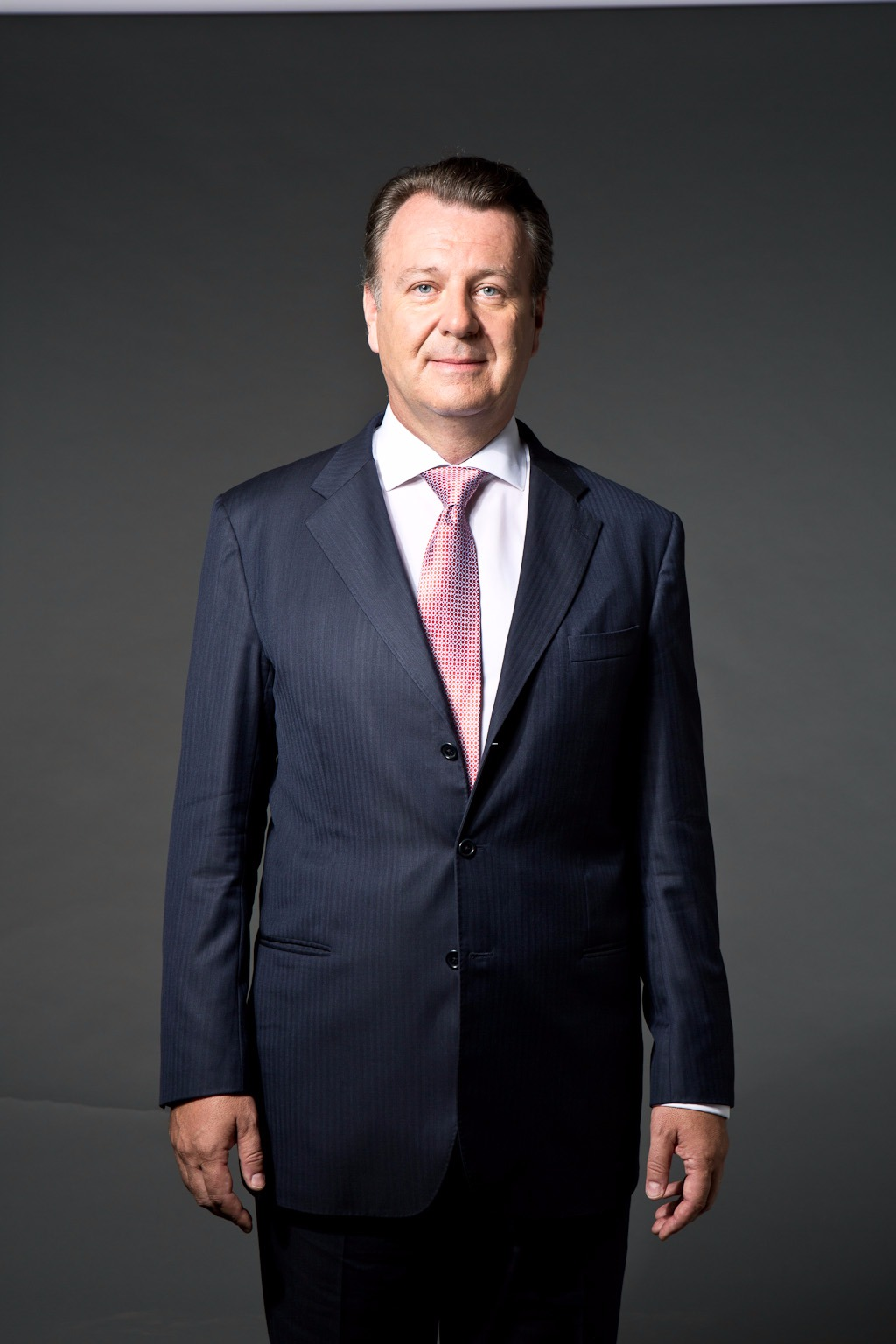 Martin Kurschel